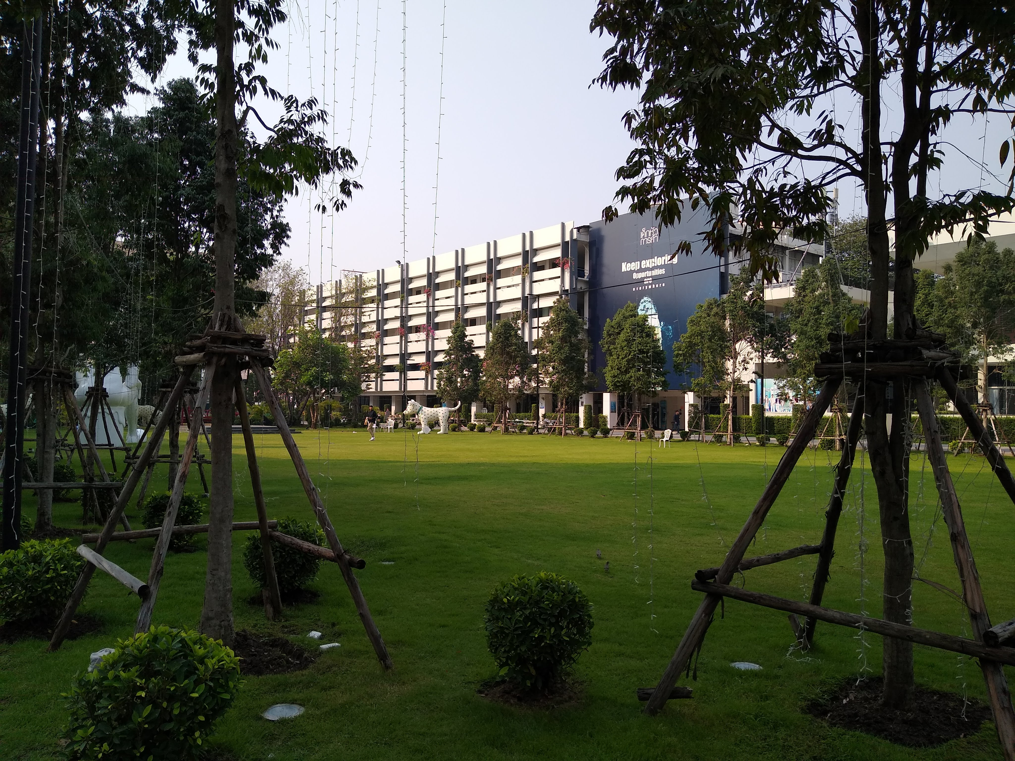 University of the Thai Chamber of Commerce